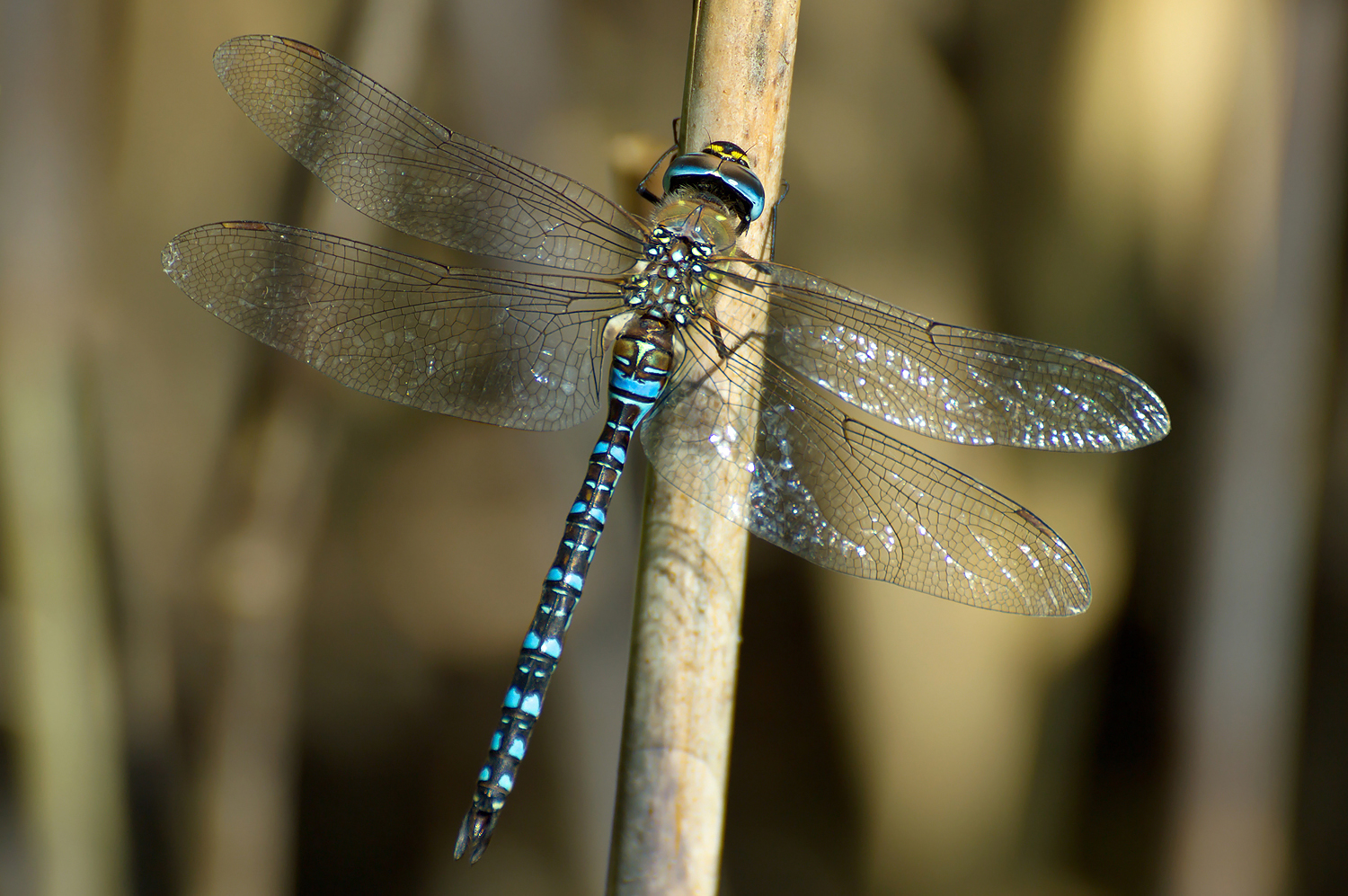 Male Migrant Hawker (Aeshna mixta).